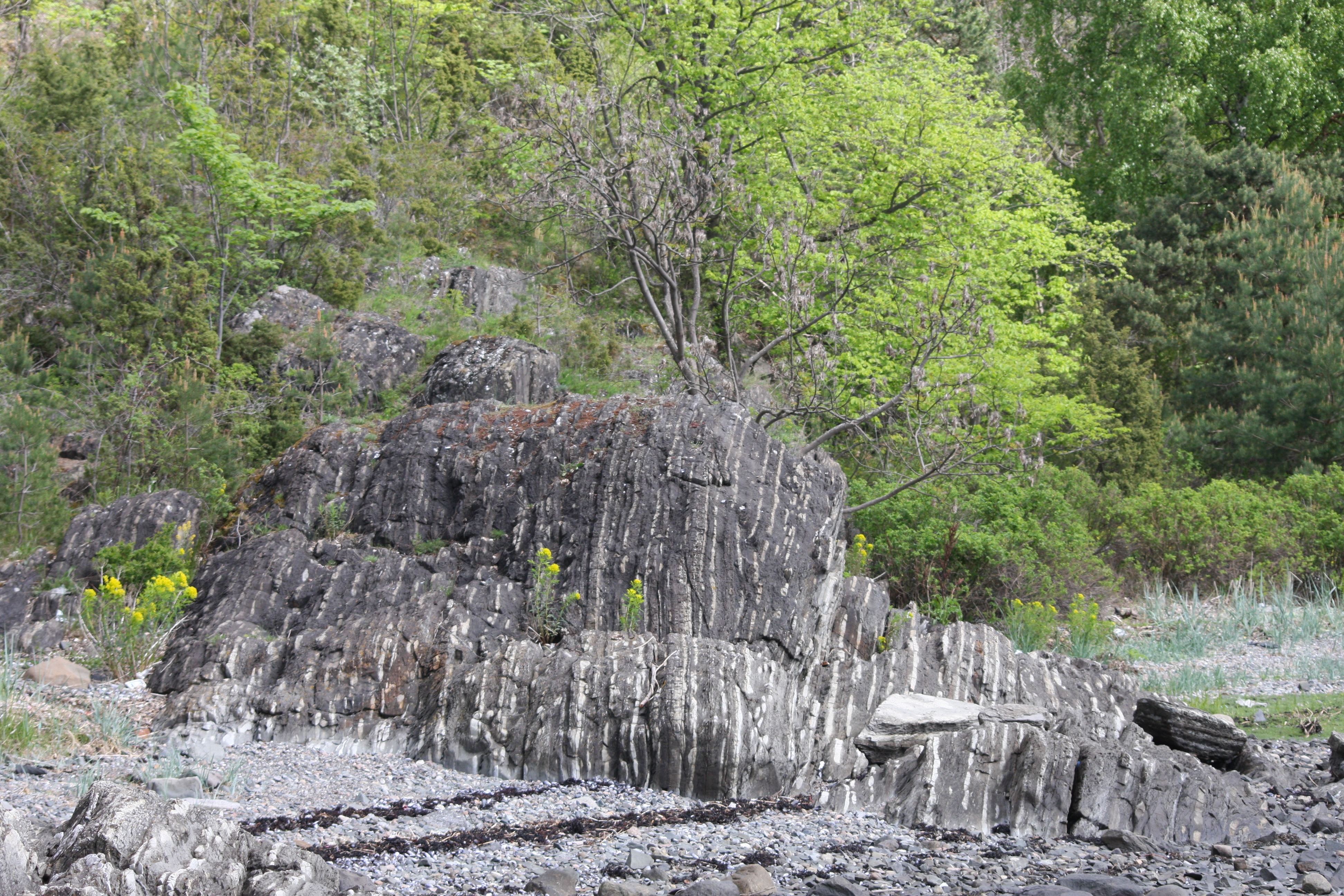 Cambrosilurian strata, turned upside-down, at the island of Langaara, Asker (Norway). This is situated in the eastern middle of the Oslo Formation, just 10 km south of downtown Oslo.